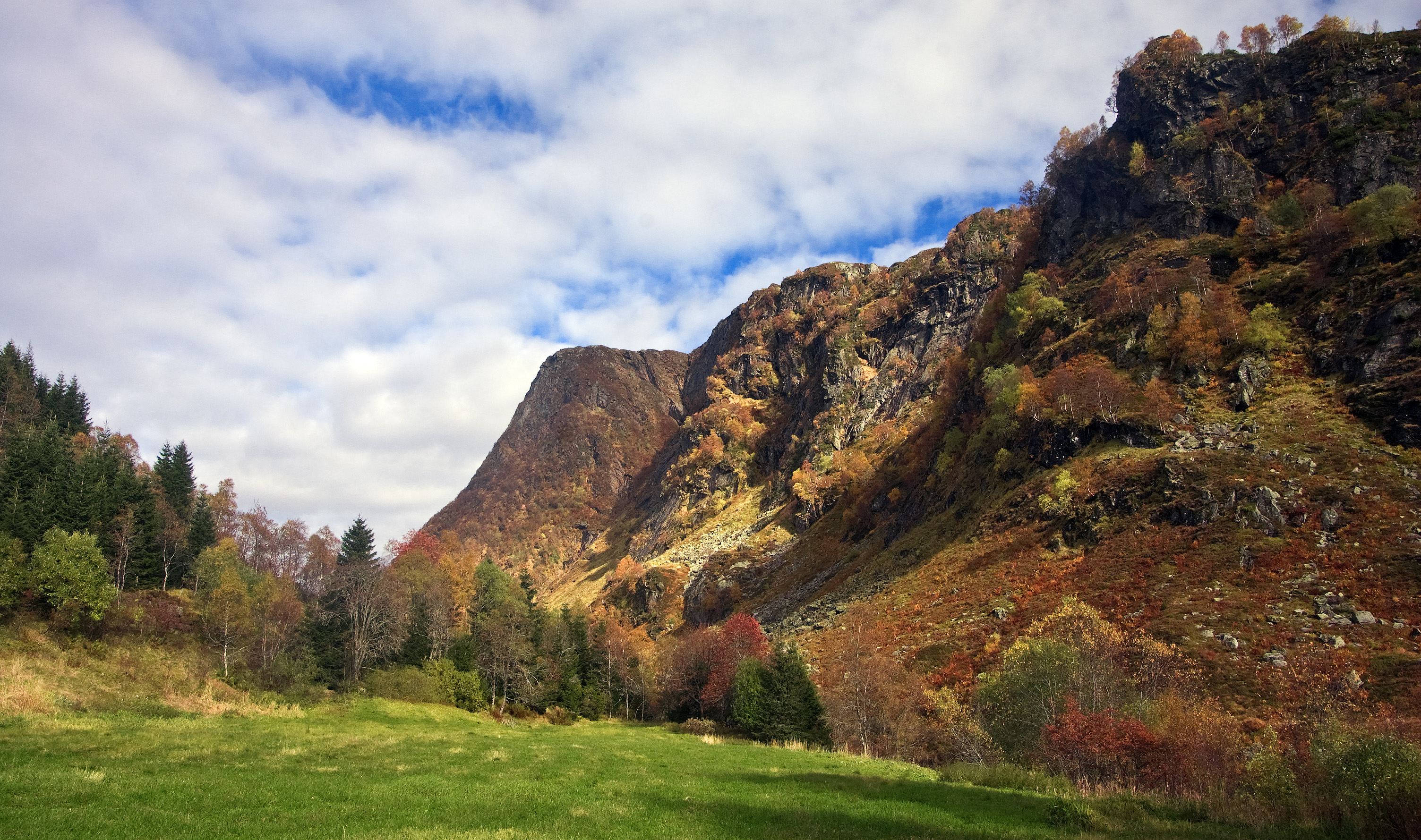 Landscape from the valley leading to Kvittingen in the municipality of Samnanger, Norway.